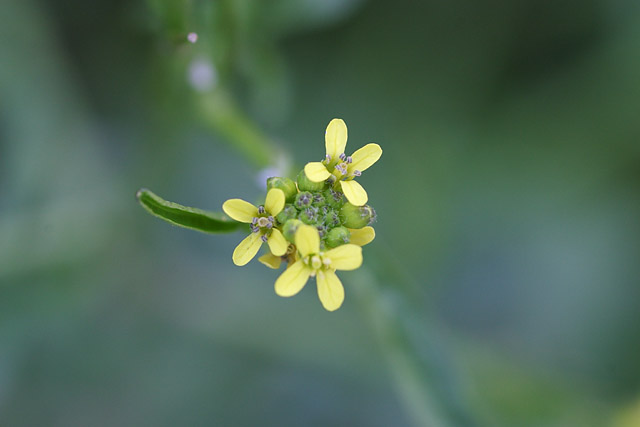 Sisymbrium officinale; habitus